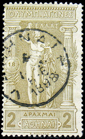 Stamp of Greece, The First Olympic Games, 1896, 2d.